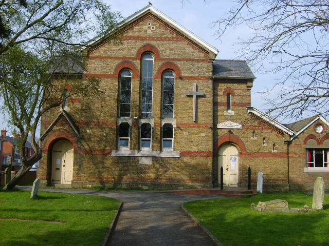 Tollesbury Congregational Church On the main cross roads in the village.